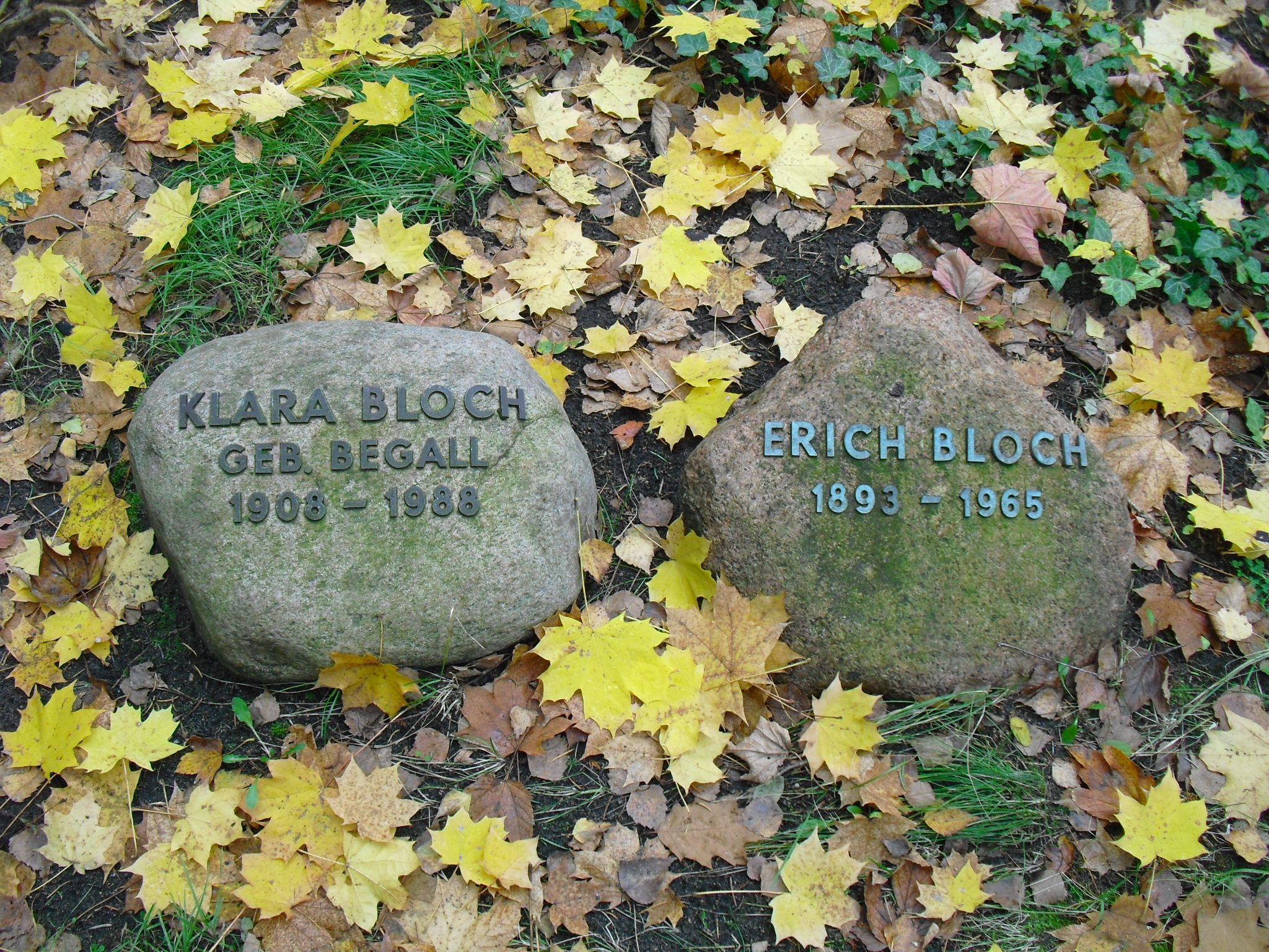 Grave of Klara Bloch and her husband Erich Bloch in Friedhof Heerstraße in Berlin-Westend